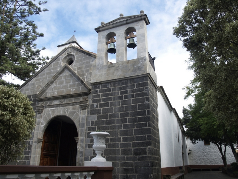 Church of St. Ursula, in the village of the same name in northern Tenerife. Canary Islands.